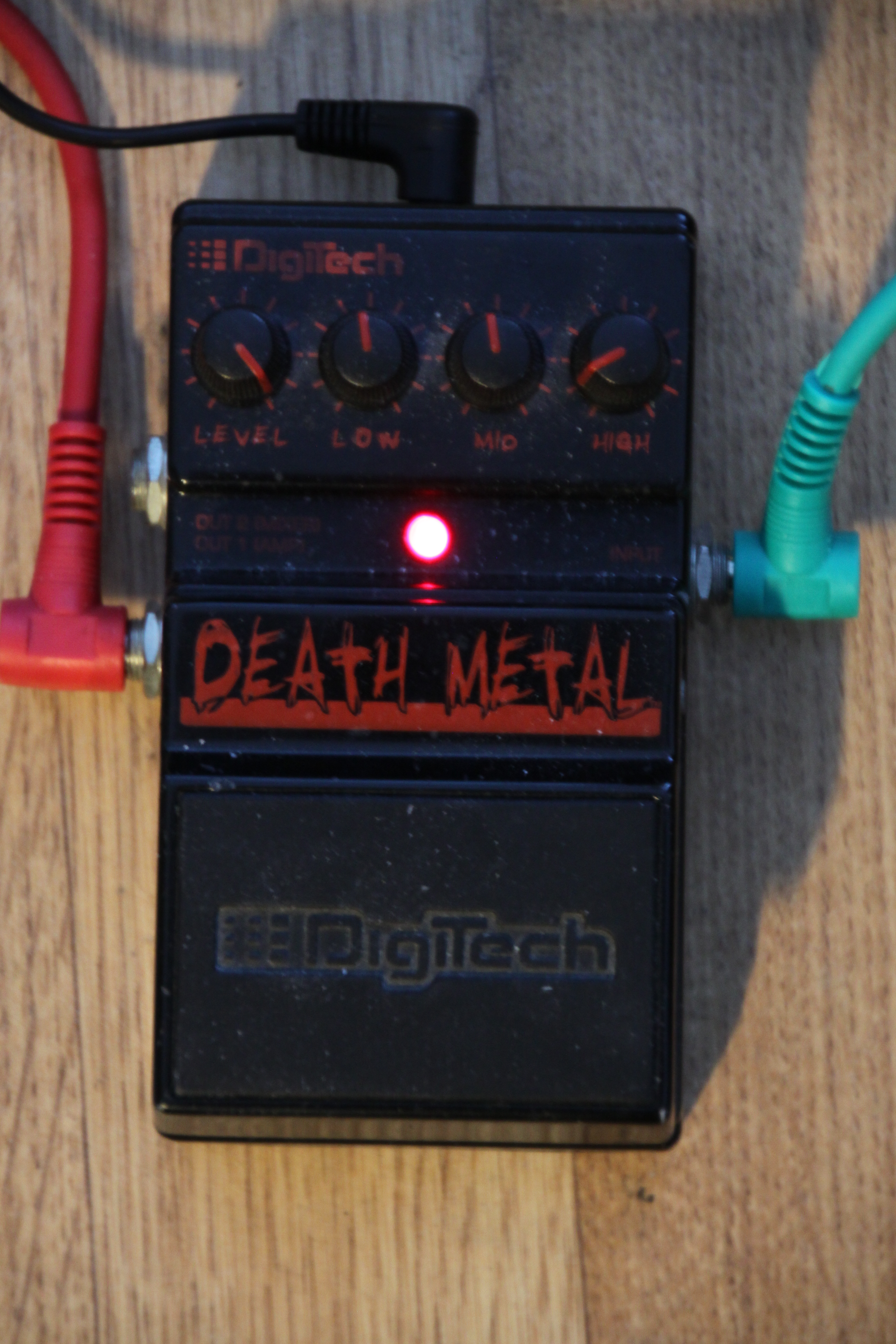 DigiTech Death Metal -distortion effect pedal for guitar.